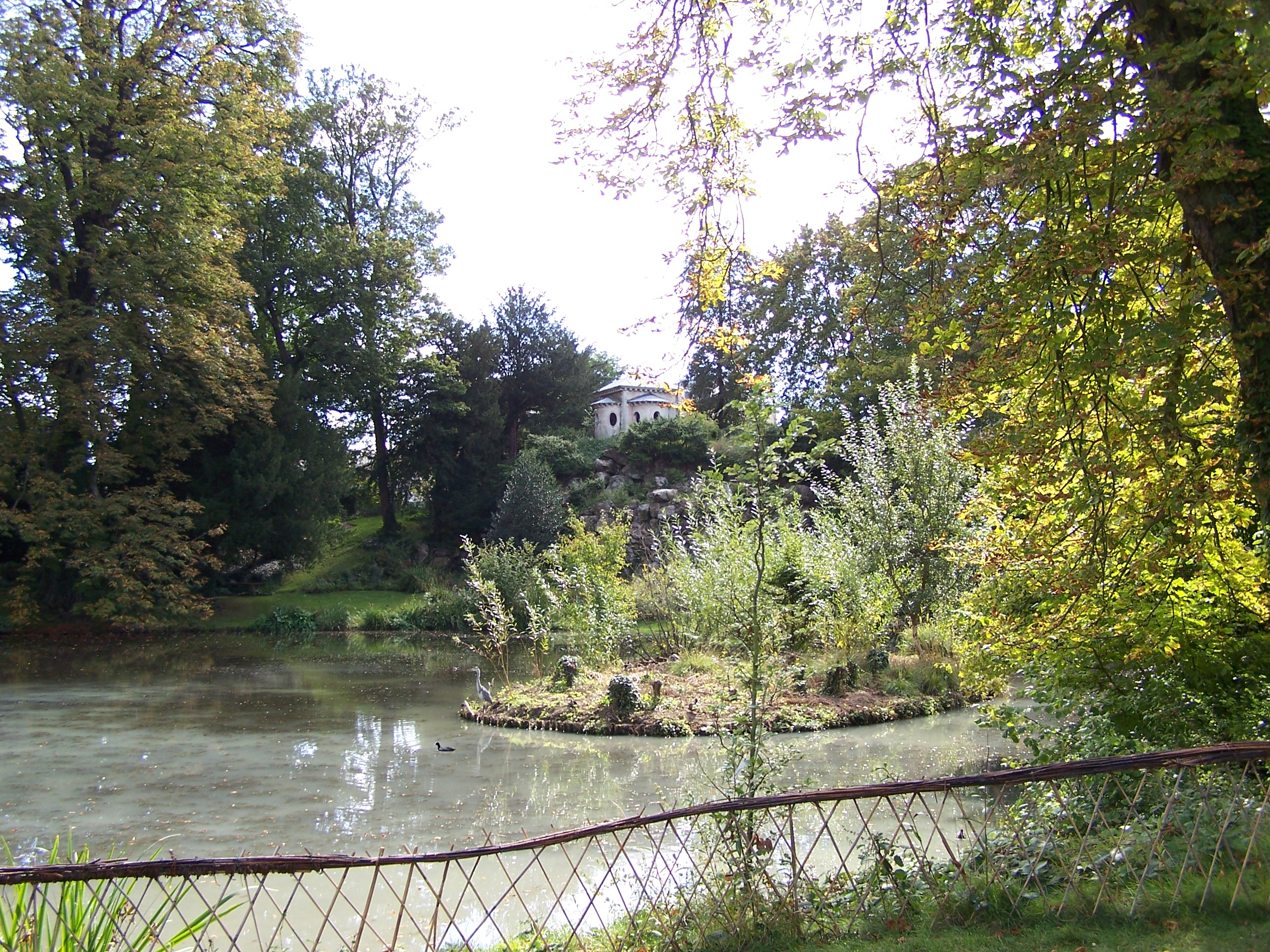 Lake in the park Balbi in Versailles (Yvelines, France)